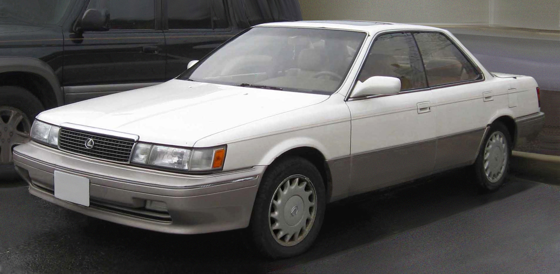 Lexus ES250 photographed in Waldorf, Maryland, USA.